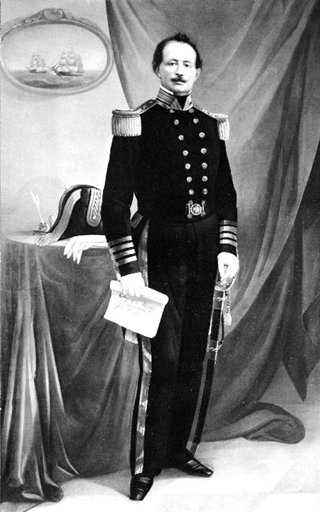 Uriah Phillips Levy, commodore of the US Navy